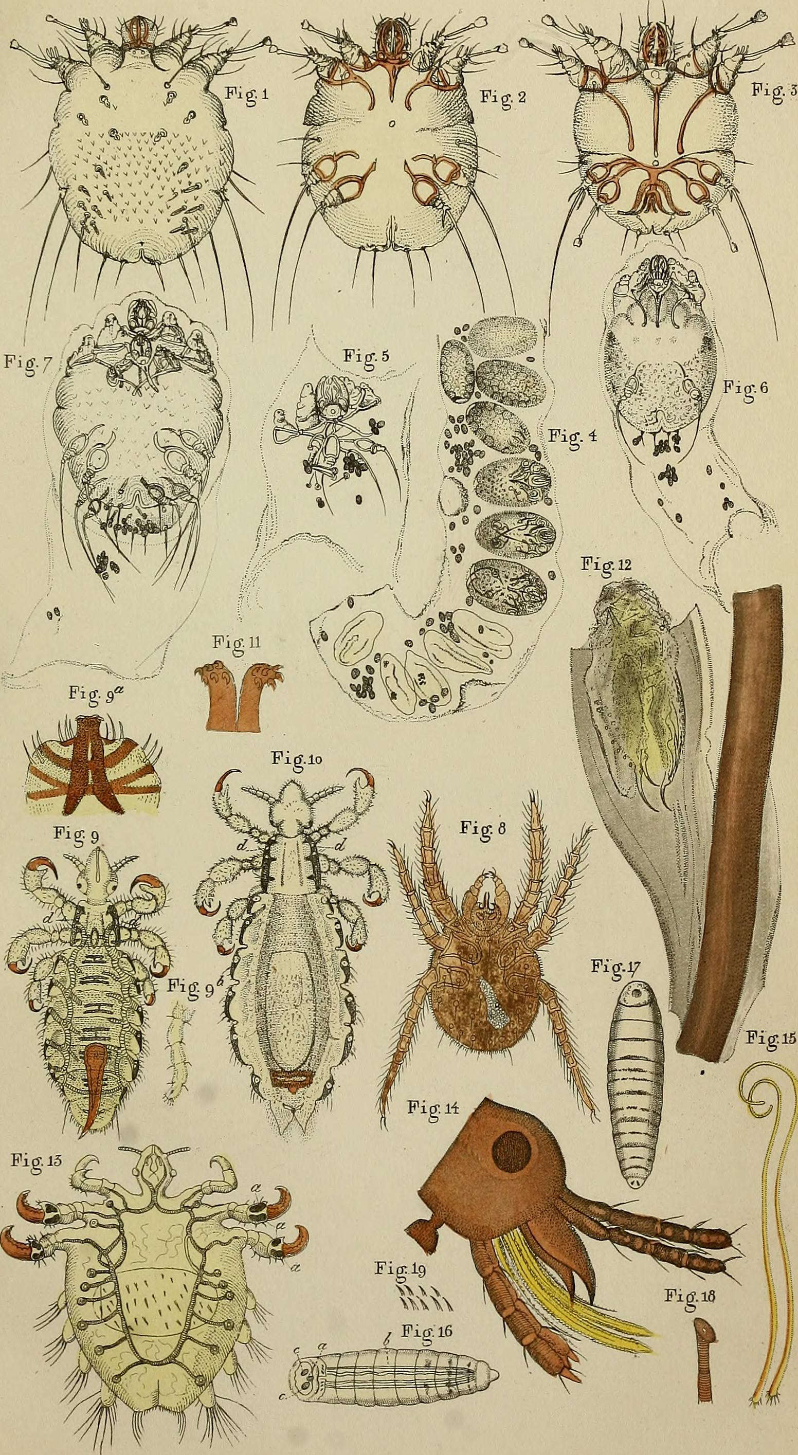 Title: Die in und an dem Körper des lebenden Menschen vorkommenden Parasiten : ein Lehr- und Handbuch der Diagnose und Behandlung der thierischen und pflanzlichen Parasiten des Menschen : zum Gebrauche für Studirende der Medicin und der Naturwissenschaften, für Lehrer der Zoologie, Botanik, Physiologie, pathologischen Anatomie und für praktische Ärzte Year: 1855 (1850s) Authors: Küchenmeister, Friedrich, 1821-1890 Subjects: Medical parasitology Parasitology Publisher: Leipzig : Druck und Verlag von B.G. Teubner Text Appearing Before Image: Tab. IX Text Appearing After Image: DIE IN UND AN DEM KÖRPER DES LEBENDEN MENSCHEN VORKOMMENDEN PAKASITEN. EIN LEHR- UND HANDBUCH DER DIAGNOSE UND BEHANDLUNG DER THIERISCHEN UNDPFLANZLICHEN PARASITEN DES MENSCHEN. ZUM GEBRAUCHE FÜR STUDIRENDE DER MEDICIN UND DER NATURWISSENSCHAFTEN, FÜR LEHRER DER ZOOLOGIE, ROTANIK, PHYSIOLOGIE, PATHOLOGISCHEN ANATOMIE UND FÜR PRAKTISCHE ÄRZTE ZUSAMMENGESTELLT VON m FRIEDRICH KÜCHENMEISTER, PRAKT. ARZT IN ZITTAU, CORRESPOND. MITGLIED DER GESELLSCHAFT ISIS UND DES VEREINS FÜR NATUR- UND HEILKUNDE IN DRESDEN, DER GESELLSCHAFT FÜR NATUR- UND HEILKUNDE ZU GIESSEN, DER K. K. GESELLSCHAFT DER ÄRZTE ZU WIEN, DER K. DÄNISCHEN MEDICIN. GESELLSCHAFT ZU COPENHAGEN. ZWEITE ABTHEIEUNG. DIE PFLANZLICHEN PARASITEN. MIT 5 KUPFERTAFELN. LEIPZIG, 1855. DRUCK UND VERLAG VON B. G. TEUBNER. SEINEM GEEHRTEN FREUNDE HERRN PROFESSOR DER MEDICIN DI HERMANN EBERHARD RICHTER ZU DRESDEN DIE FREUNDLICHSTEN GRÜSSE VON DK KÜCHENMEISTER. Zittau, am 7. Juni 1855. Indem icli dieses Wcrkchen über die bei dem